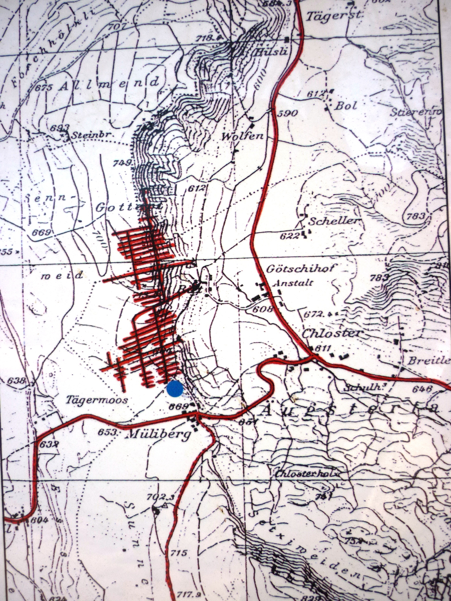 "Riedhof" coal mine, Aeugstertal ZH, Switzerland Bergwerk Riedhof, Aeugstertal ZH, Schweiz